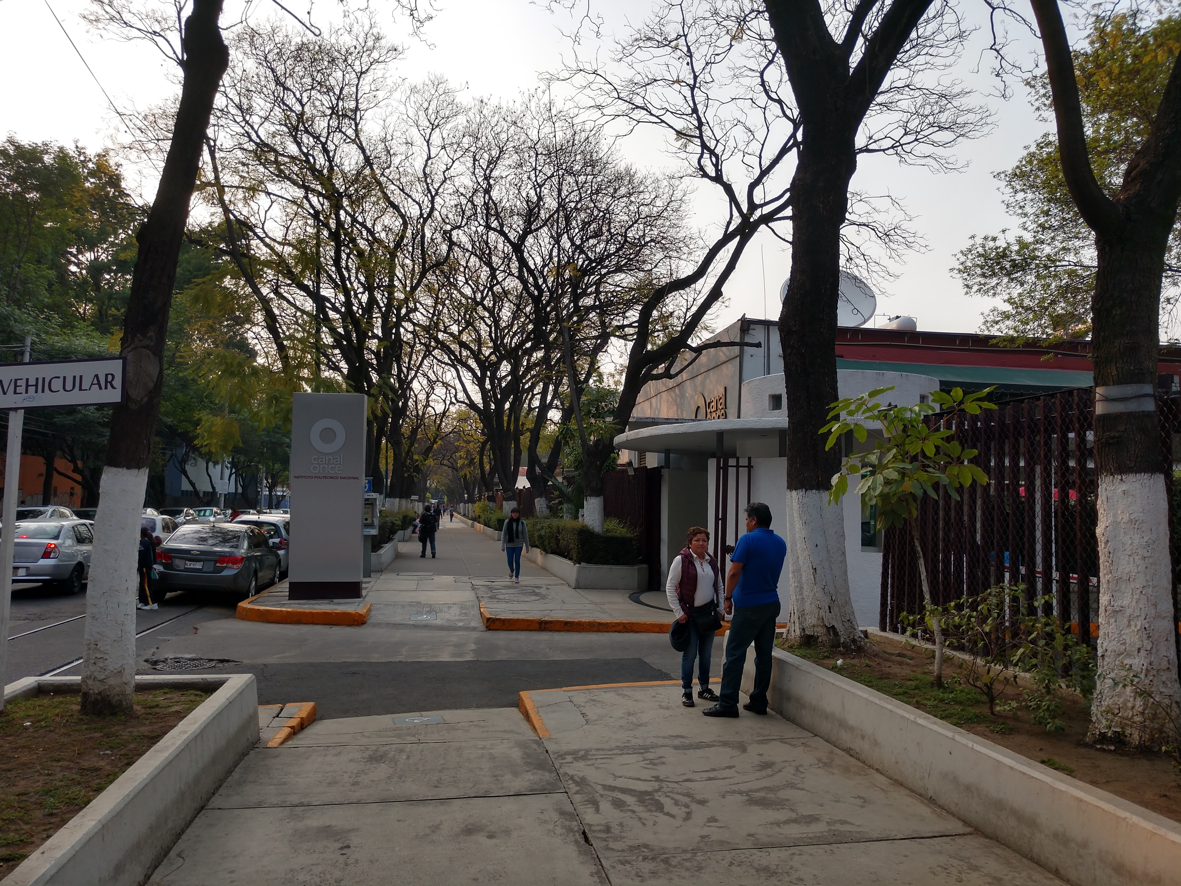 Canal Once studios, Mexico City, Mexico